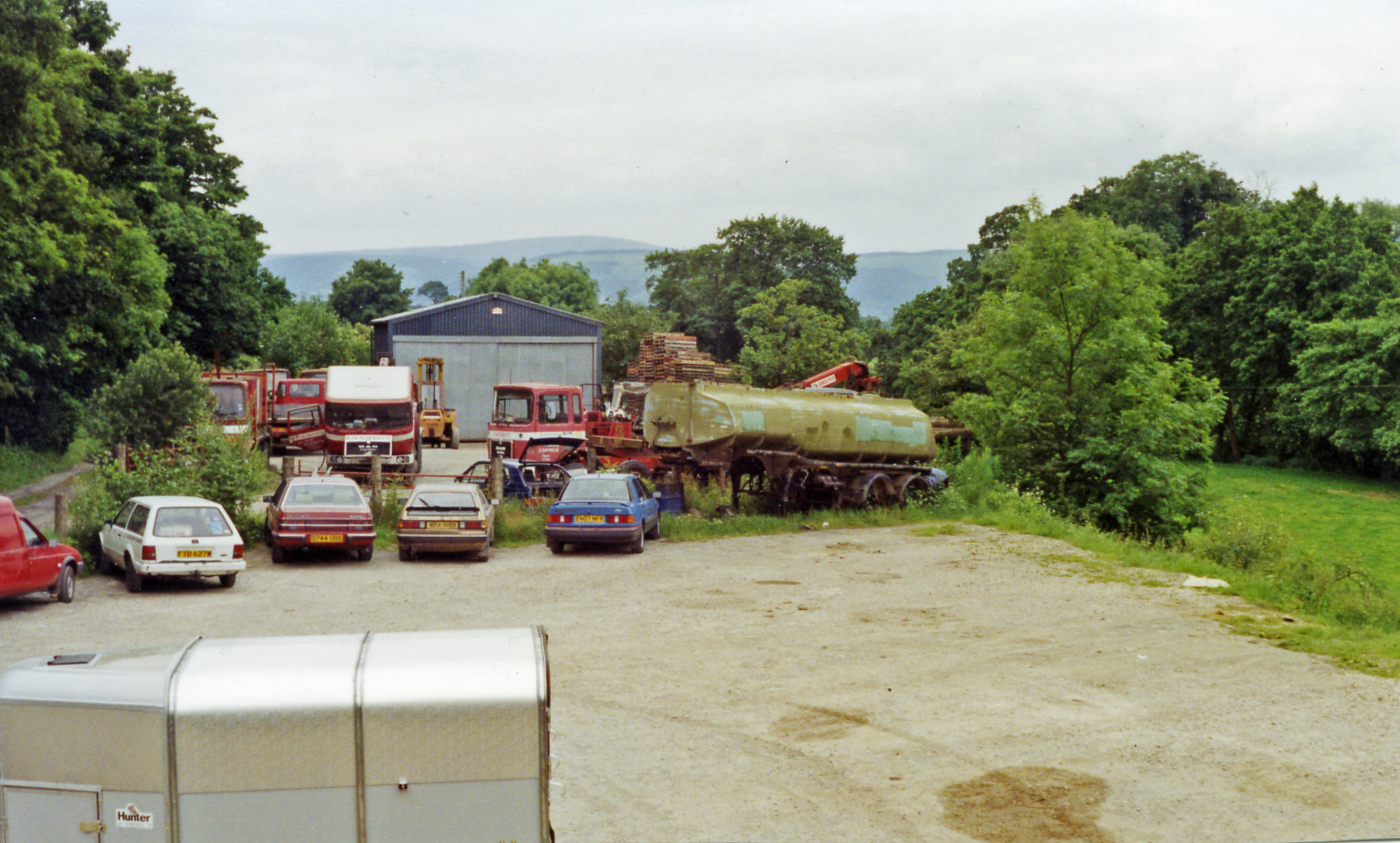 Site of Cynwyd station. View NE, towards Corwen, Llangollen and Ruabon: ex-GWR Ruabon - Dollgelley - Barmouth line. The station was closed 14/12/64 and the line on 18/1/65, but the heritage Llangollen Railway is now restoring the line to Corwen - a few miles to the north.